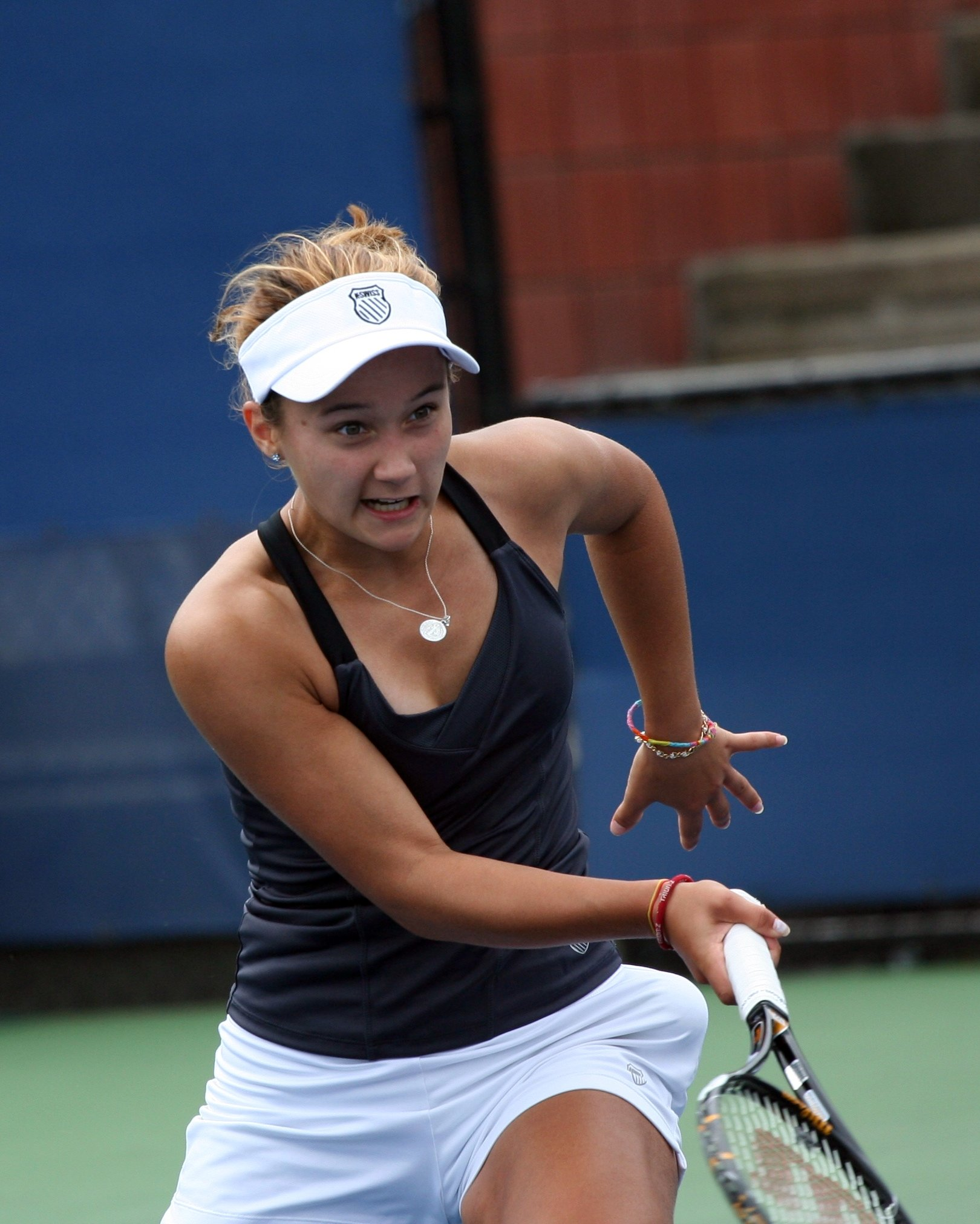 U.S. Open Juniors Wednesday, Sept. 9, 2009